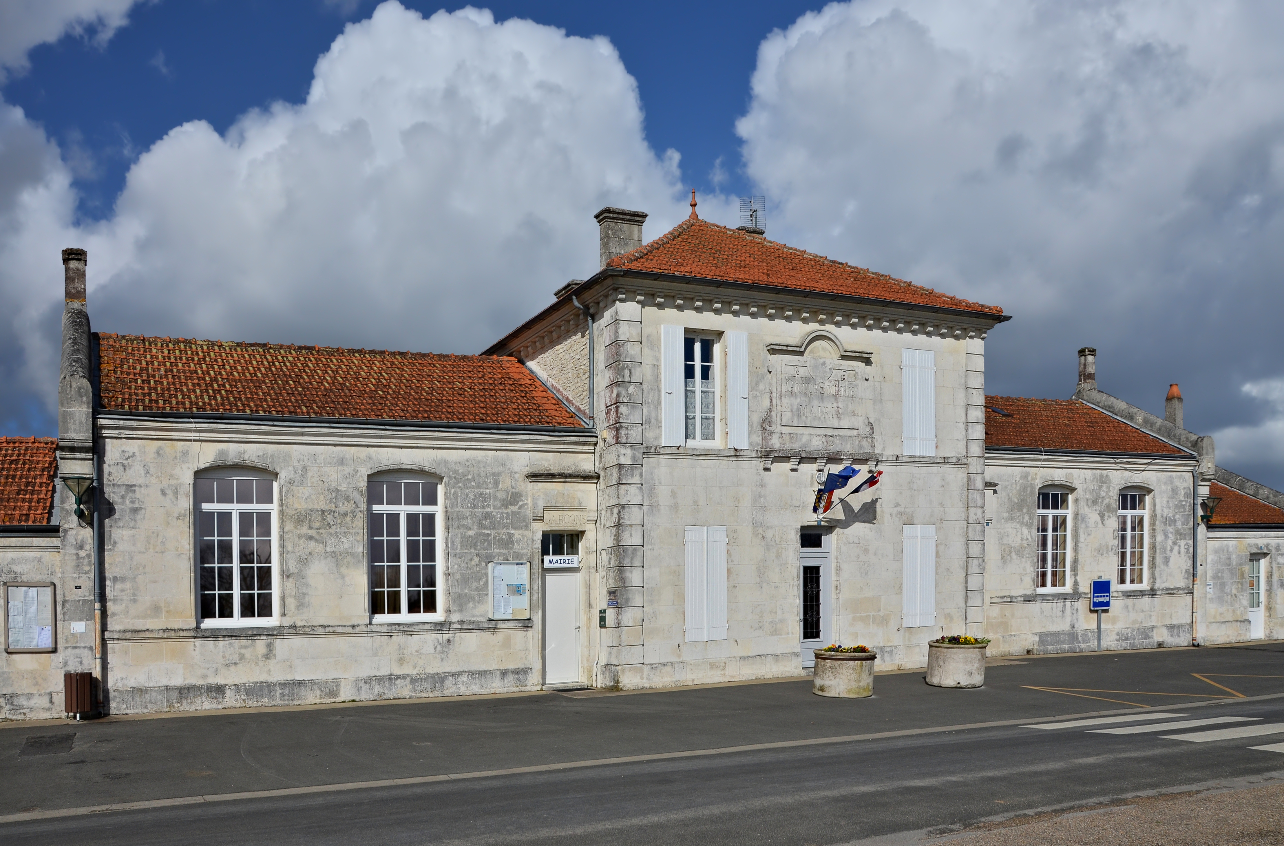 Facade of the town hall, Villars-en-Pons, Charente-Maritime, France